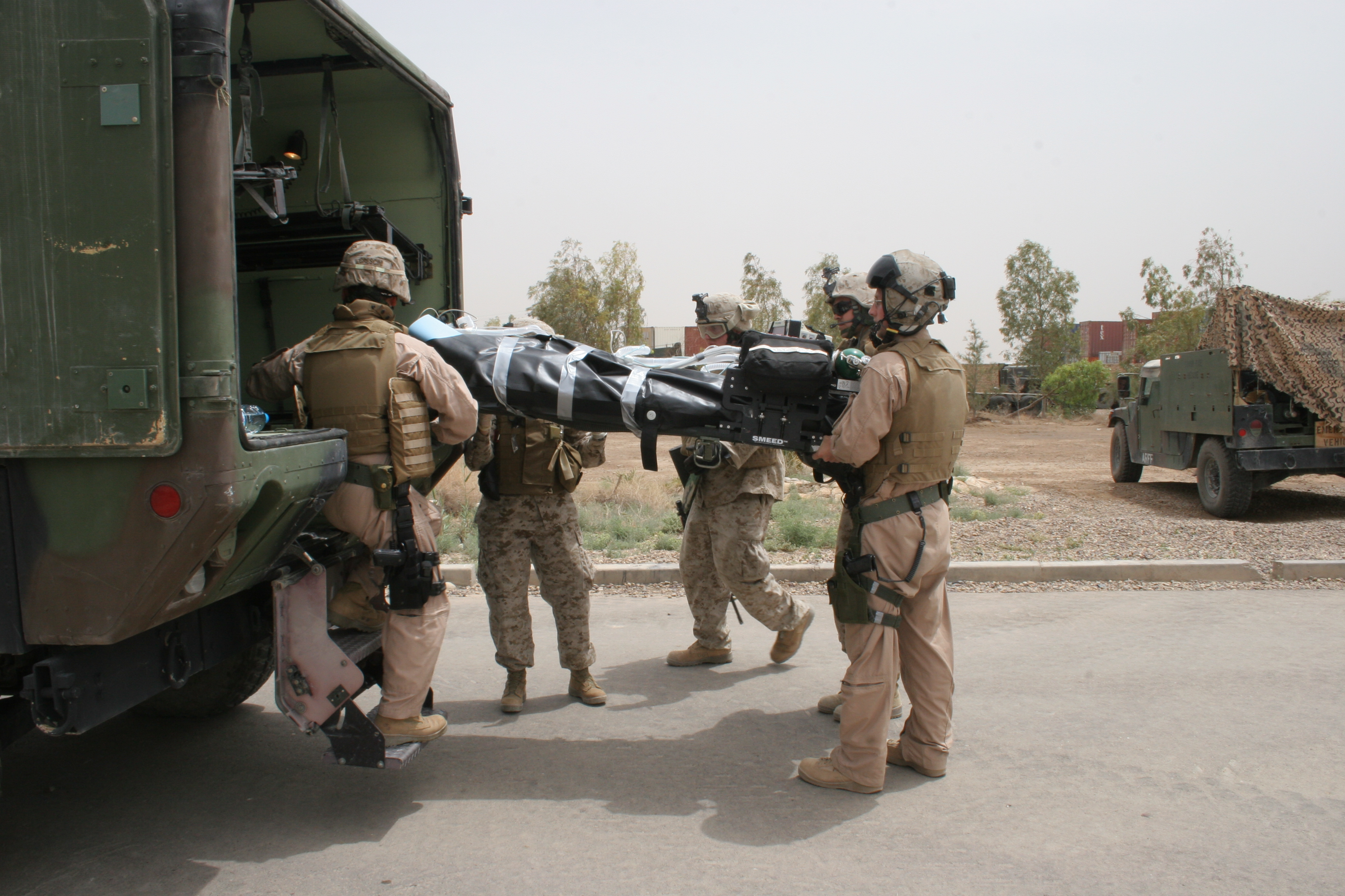 Speed and communication are essential as Marines and sailors load a patient onto a waiting ambulance for medical evacuation May 2, 2006 at Camp Fallujah. The staff of nurses, corpsmen, surgeons and Marines here handle the needs of both operating and emergency rooms, acting as a key link between basic medical care in the field and advanced treatment at one of three main hospitals in the region.